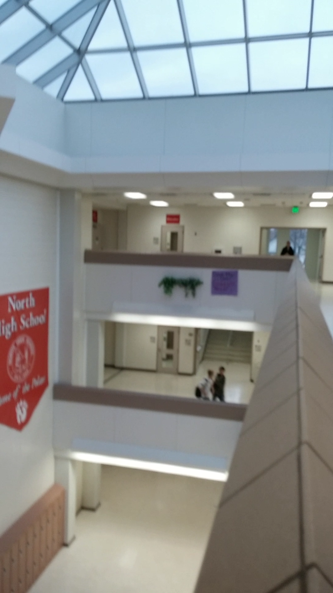 three floor atrium at North St. Paul High School